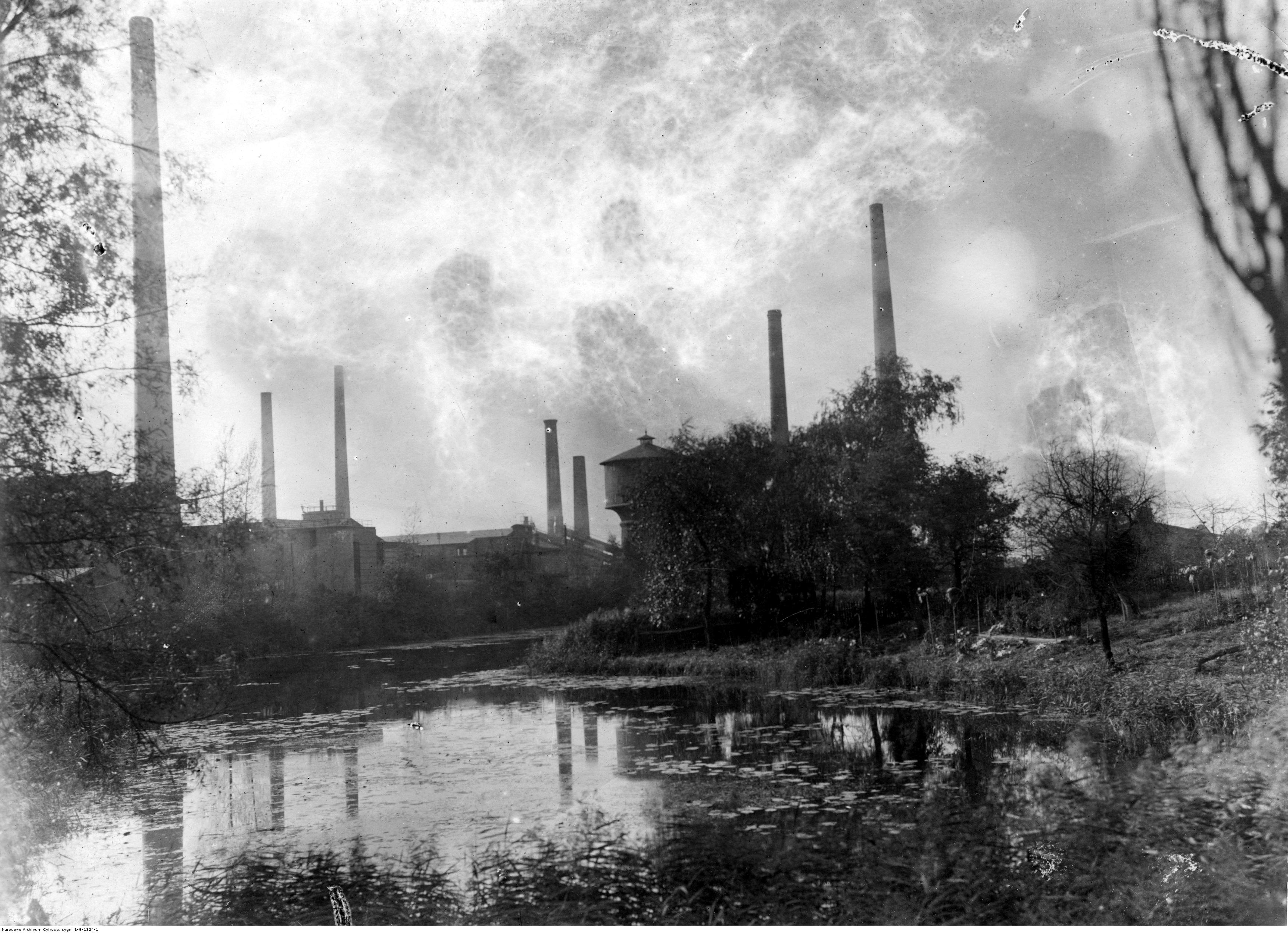 Fryderyk Smelting Works in Strzybnica (now part of Tarnowskie Góry, Poland), general view.